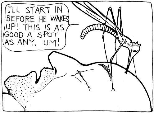 Sixth panel from Dream of the Rarebit Fiend comics strip by Winsor McCay for 1909-06-05. A giant mosquito sucks the blood of a sleeping man.